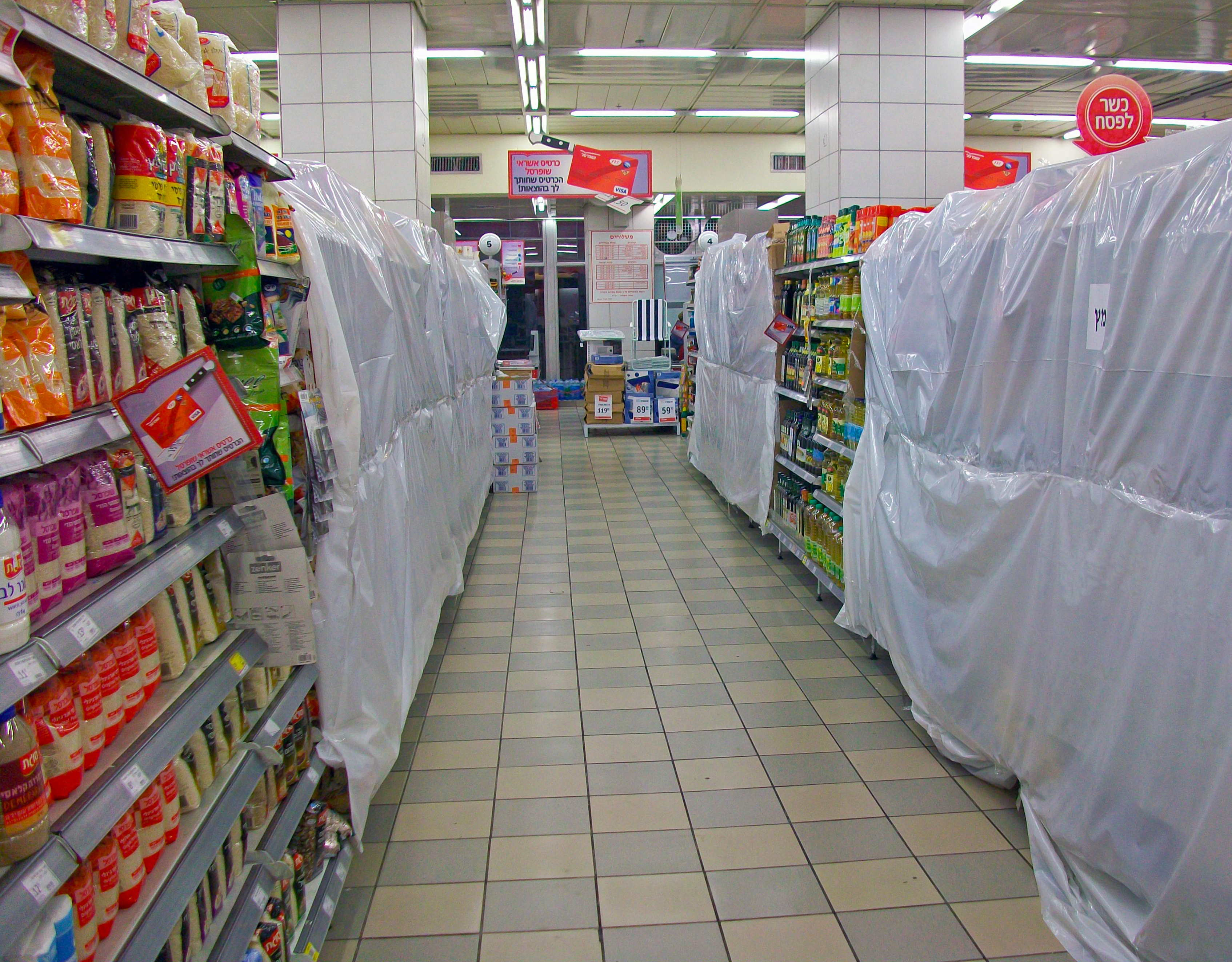 Plastic bags conceal leavened foods that cannot be consumed during Passover in a Jerusalem supermarket.